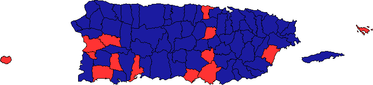 Puerto Rican general election, 1996 map.